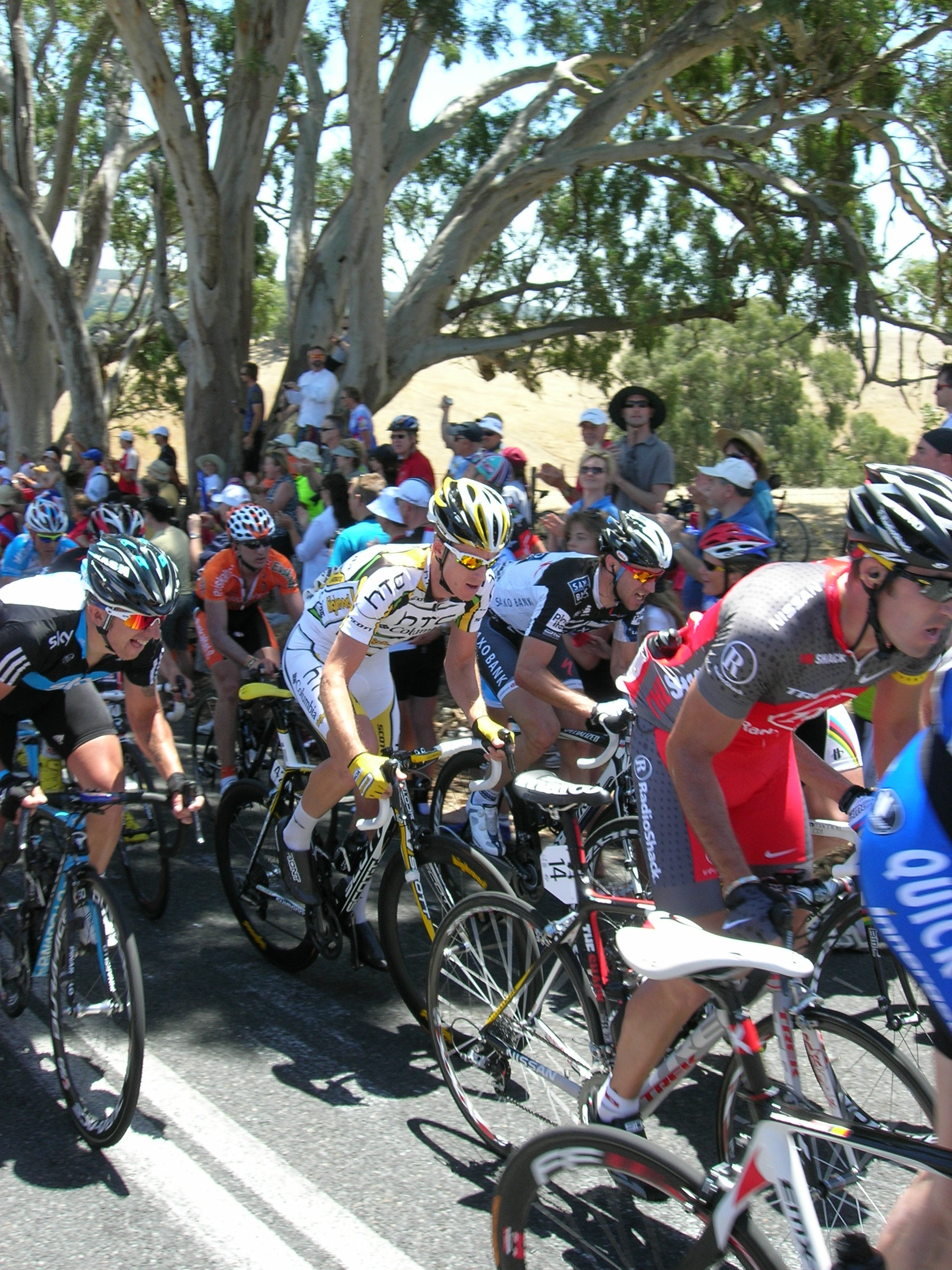 The peloton climbs Checker Hill during Stage 2 of the 2010 Tour Down Under.